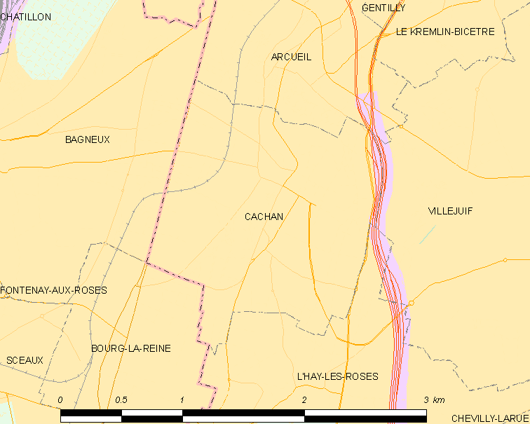 Map of French municipality Cachan